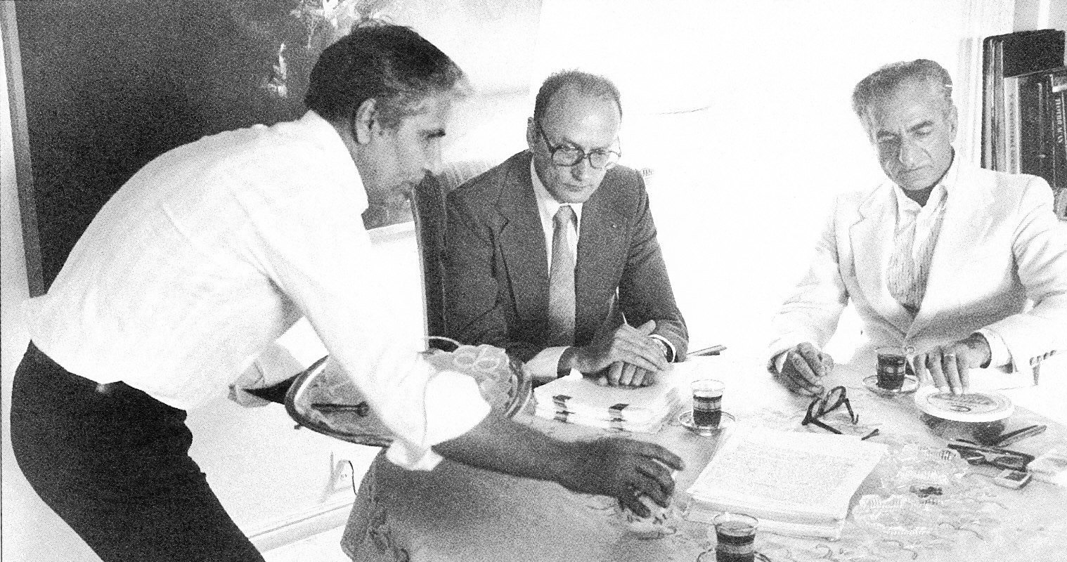 Shah Mohammad Reza Pahlavi, Henry Boniet in Cuernavaca, Mexico, 1979